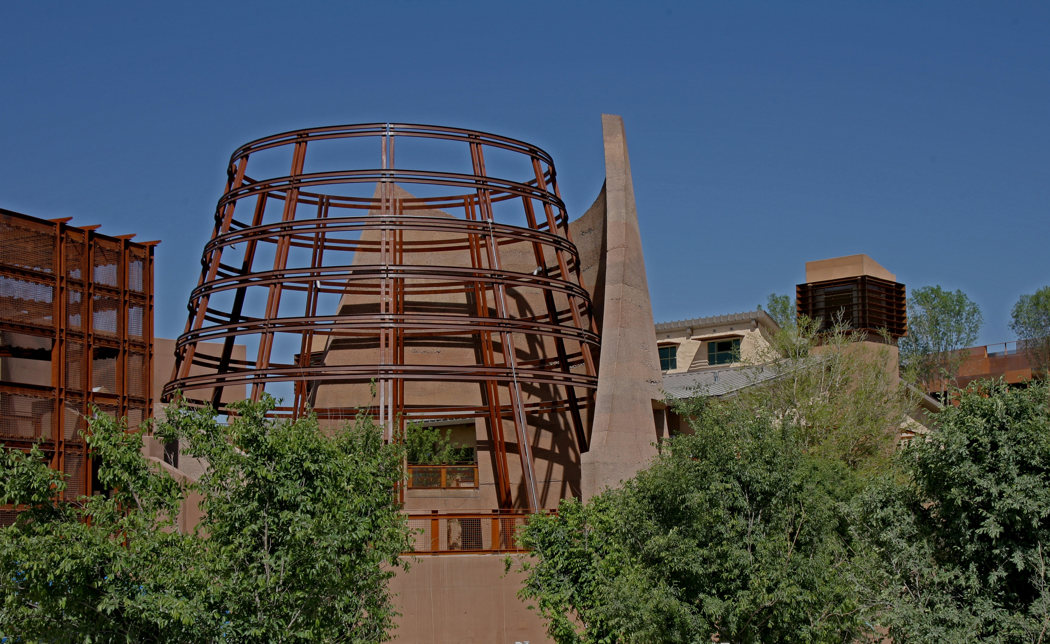 The Desert Living Center rotunda at the Las Vegas Springs Preserve — in Las Vegas, Nevada.